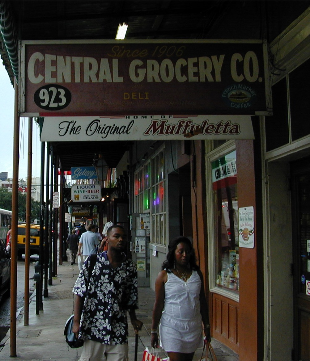 Sign outside Central Grocery Store in New Orleans, where muffuletta sandwich originated in 1906. Picture taken by Jan Kronsell in July 2004.